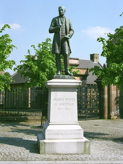 Statue of James White of Overtoun. This is a closer view of the statue that is shown in 1557184 (see that link for further information), and in 665027 The statue portrays the James White for whom 59380 was built, and whose son became the first Lord Overtoun (see 1024544 for further details).